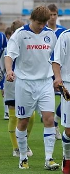 Aleh Veratsila as a player of FC Dinamo Minsk